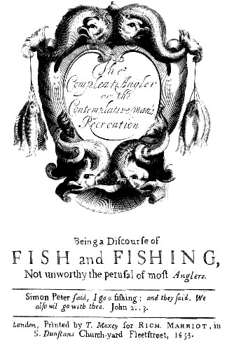 Title page to Izaak Walton's The Compleat Angler, 1653.